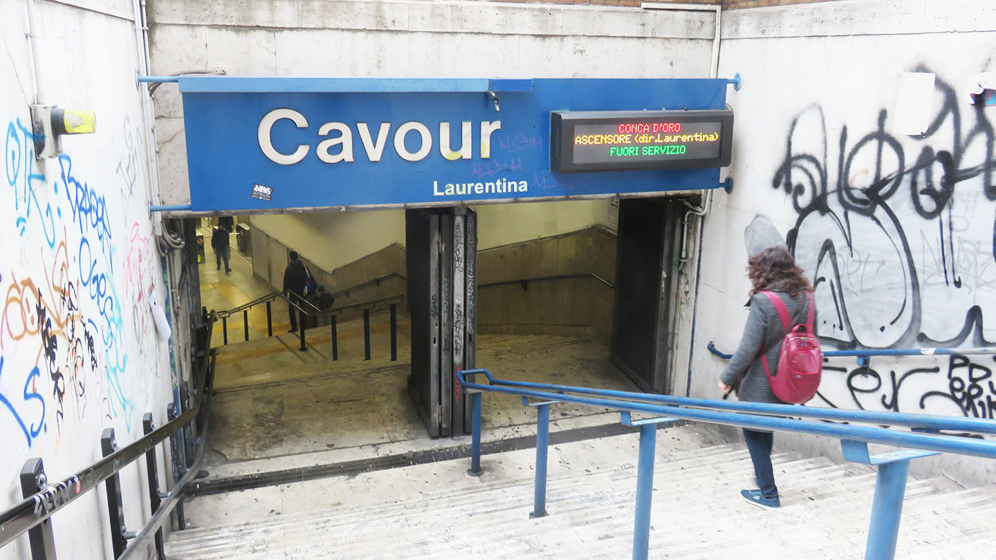 Cavour Station's entrance